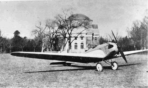 The Monoplane Designed by Yin Wenyou & Zhang Jieqian of Tsinghua University in 1936